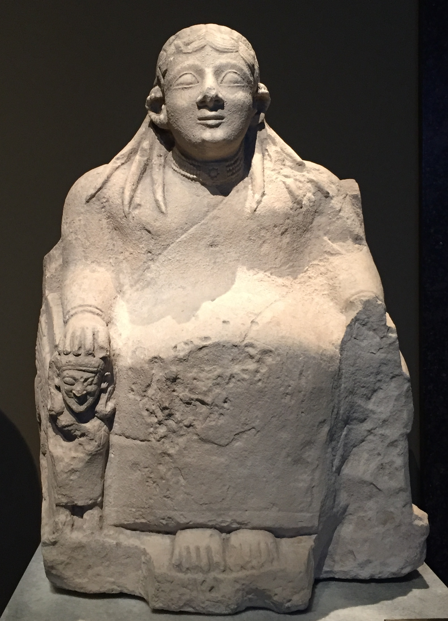 Limestone figurine on a throne found on Cyprus, dated to the first half of the 6th century BCE, probably representing Astarte, the Middle Eastern goddess of fertility, on display at the Museum of Art History (Kunsthistorisches Museum) in Vienna, Austria